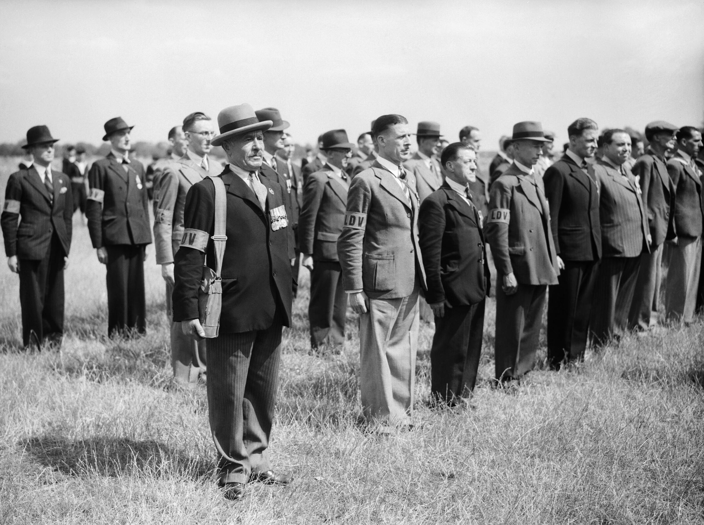 A parade of 'Old Contemptibles' - men who had served in France and Belgium in 1914 - in the Local Defence Volunteers, soon to be renamed the Home Guard, 1 July 1940. Local Defence Volunteers: 'Old Contemptibles' in the Local Defence Volunteers lined up for inspection. None of the men pictured wear any official uniform except for the LDV armband.